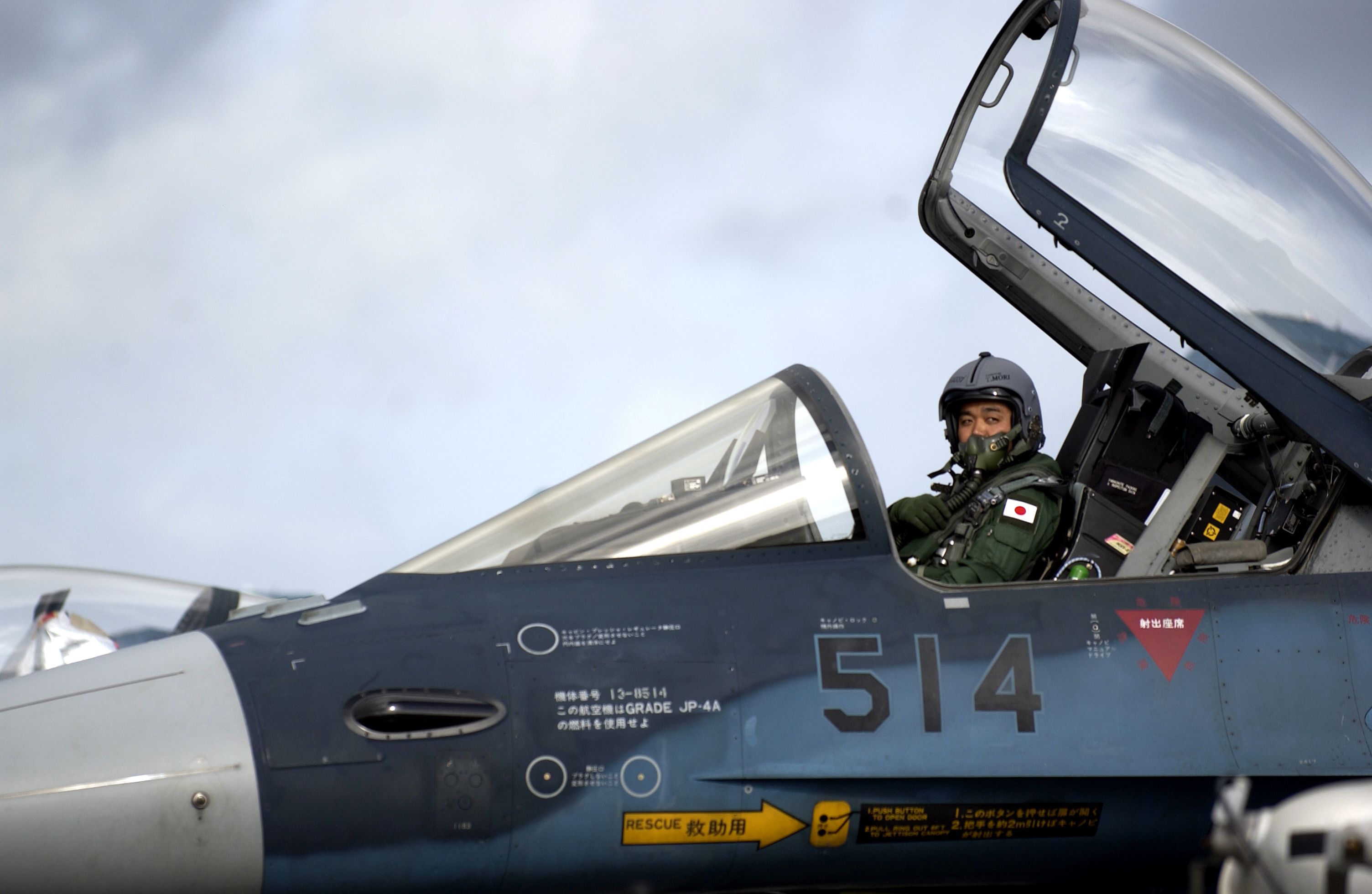 The pilot of F-2A (514) prepares for take-off at Andersen Air Force Base, Guam, June 20, 2007. The JASDF are participating in Exercise Cope North, a bilateral field training exercise conducted to increase combat readiness and interoperability between the armed forces of the United States and Japan. (U.S. Air Force photo by Senior Airman Miranda Moorer) ↑ 当時514号機が第3飛行隊所属であったことは以下で確認できる。2006.09.10 三沢基地、2007.09.09 百里基地